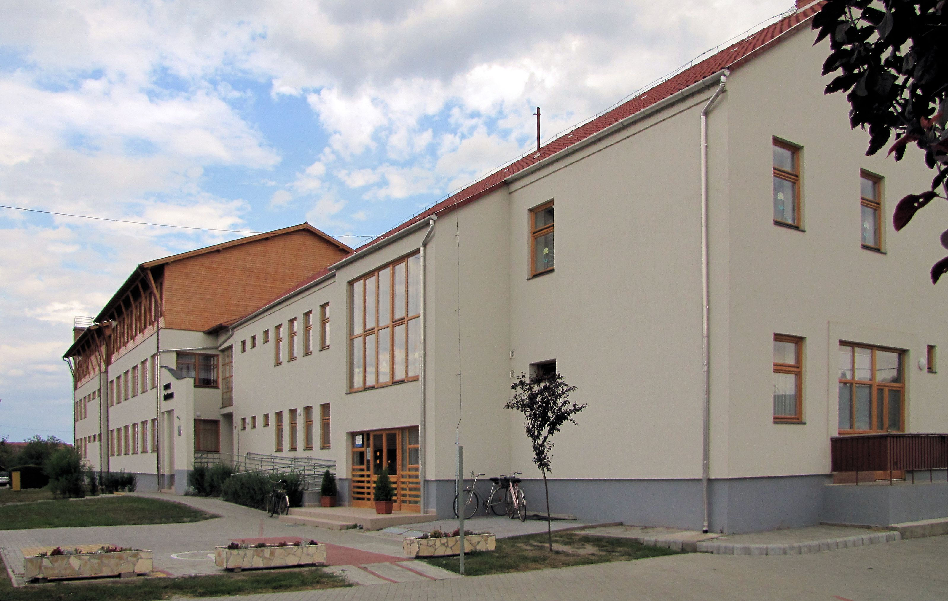 Lajos Vass Elementary School, Poroszló, Hungary